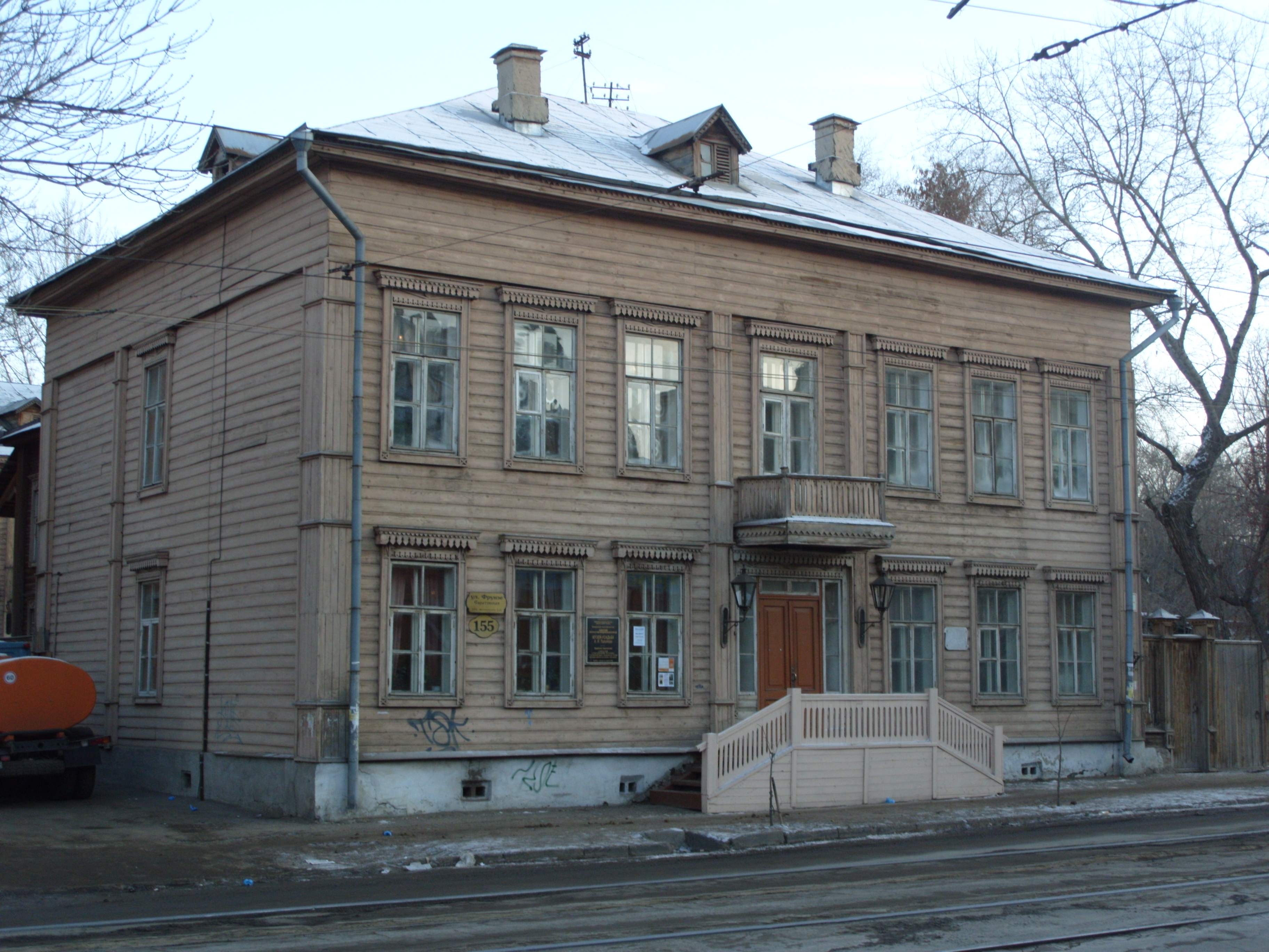 Museum-house of A.N. Tolstoy in Samara